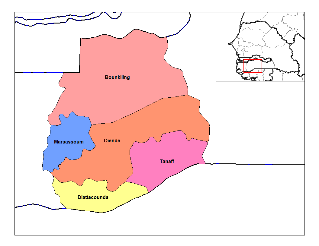 Map of the arrondissements of Sedhiou department in Senegal.